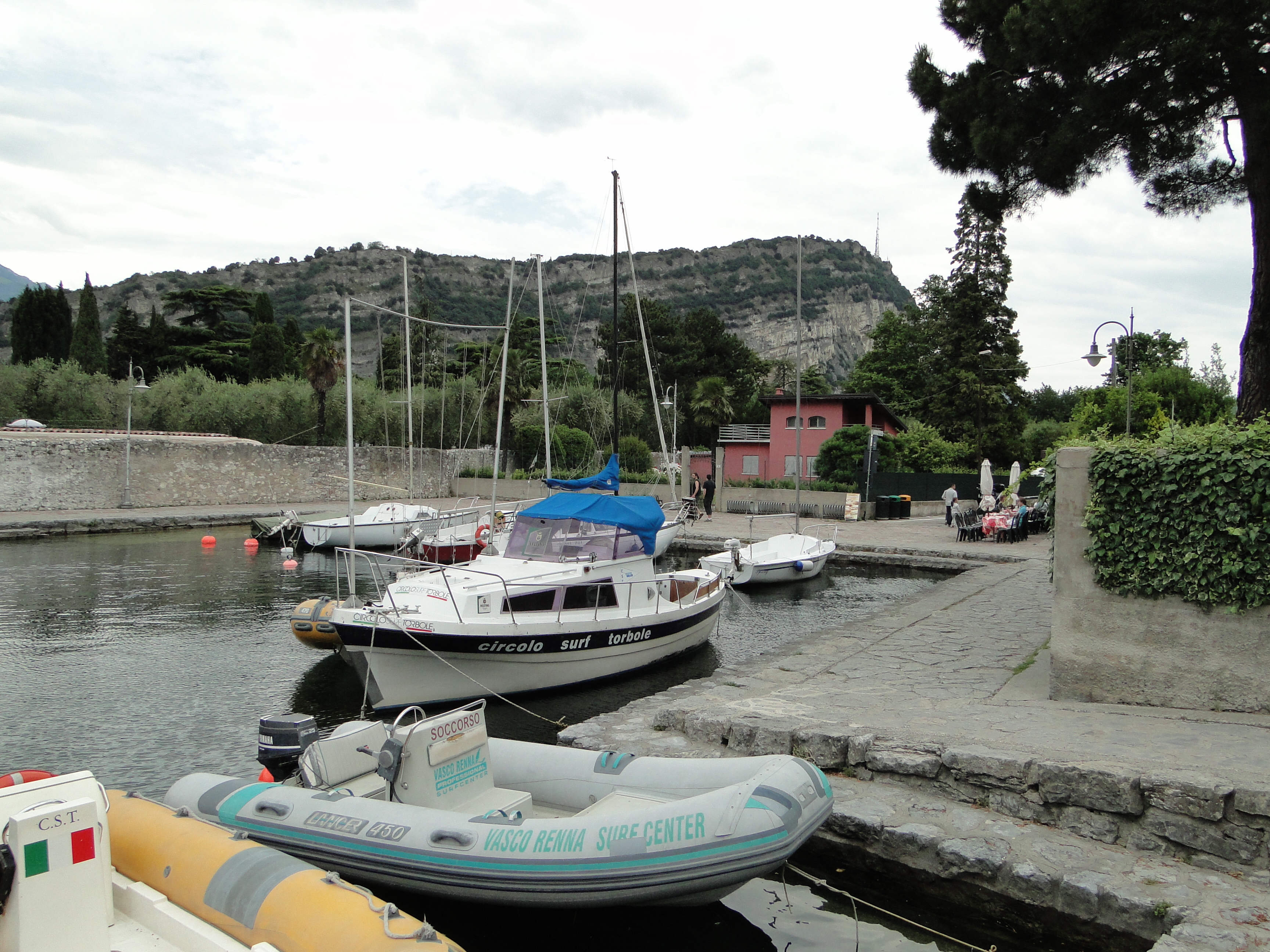 Nago-Torbole, Province of Trento, Italy